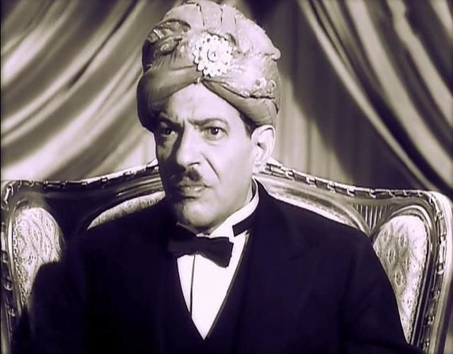 Naguib el-Rihani playing the role of the Sultan in a film entitled "Salama fi Kheir" (Everything is fine), released in 1937.